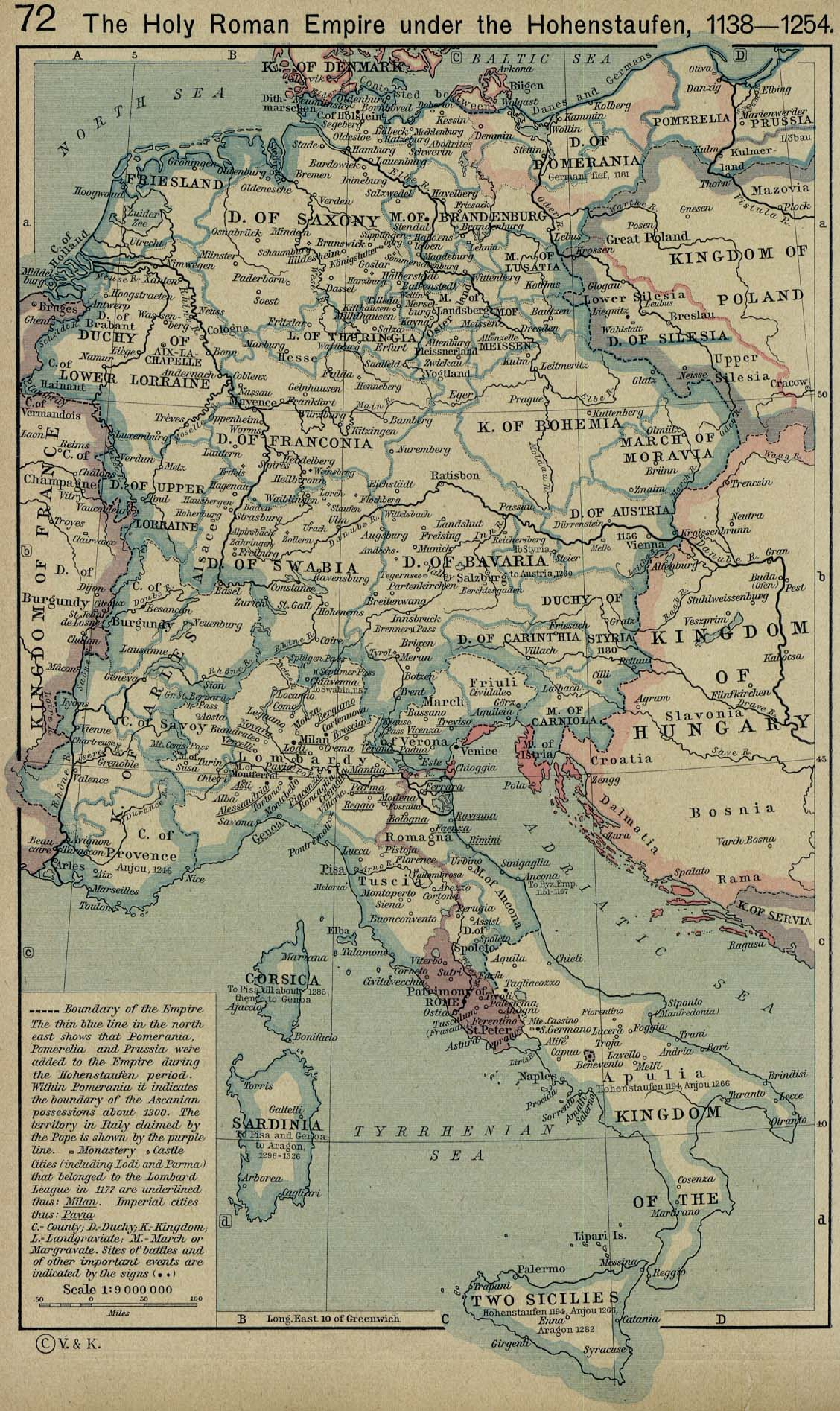 Map of the Holy Roman Empire under the Hohenstaufen 1138-1254. The thin blue in the northeast shows that Pomerania, Pomerelia and Prussia were added to the Empire in the Hohenstaufen period. Within Pomerania it indicates the boundaries of the Ascanian possessions about 1300.